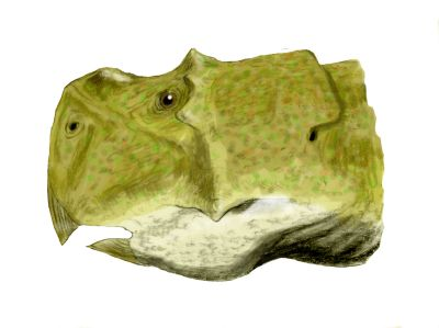 Head of Psittacosaurus sibiricus, one of the numerous species of Psittacosaur from the Early Cretaceous of Russia, pencil drawing